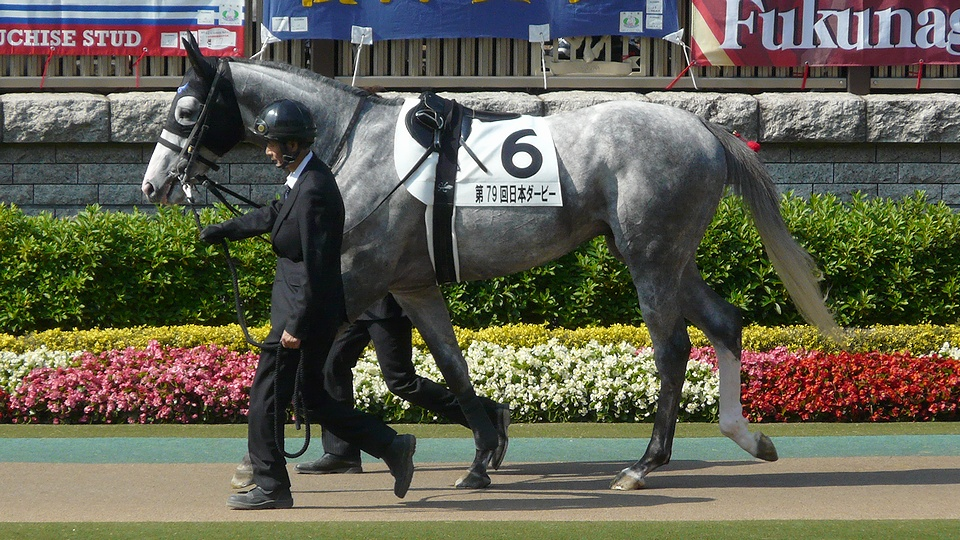 Gold-Ship20120527